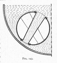 Galloway tubes, section (Heat Engines, 1913).jpg